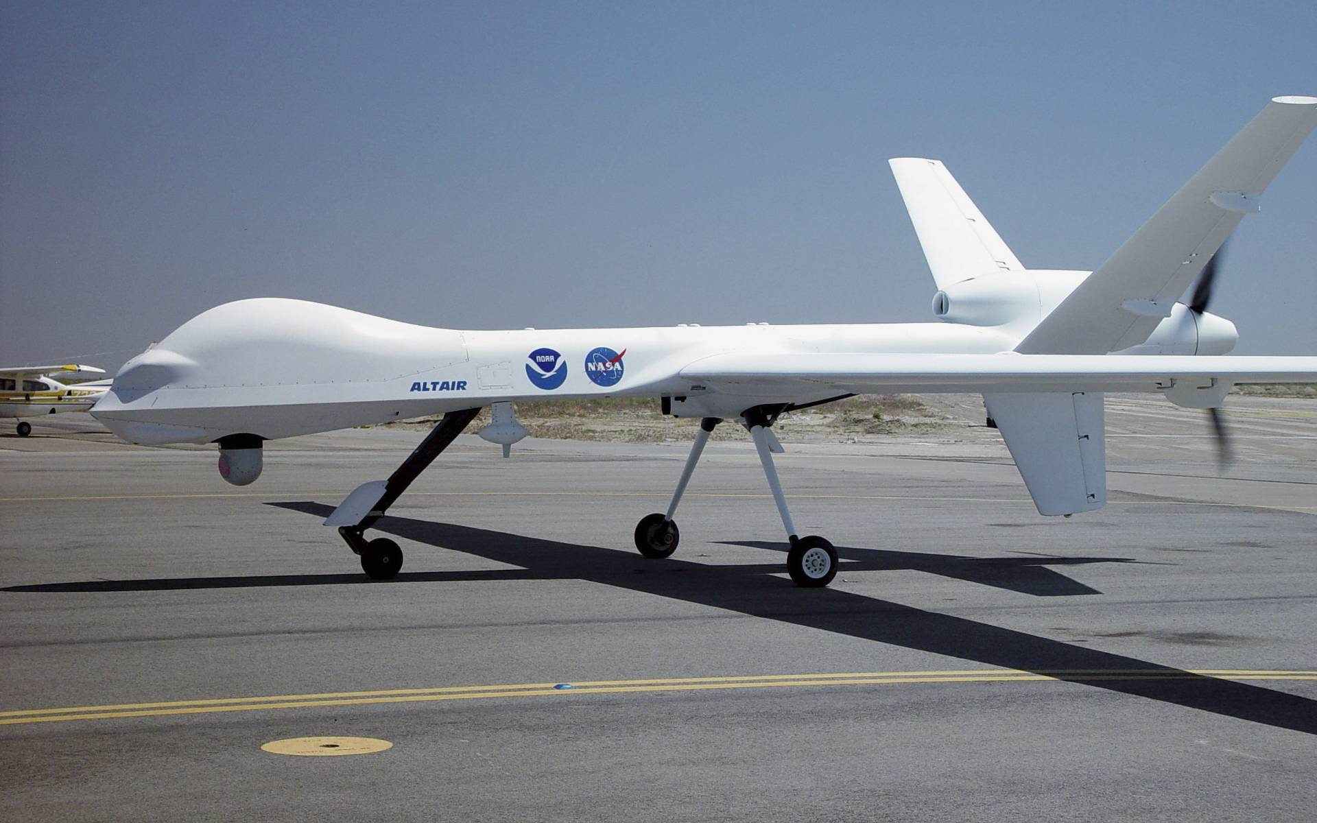 A Predator drone in US Air Force base in 2011's summer.